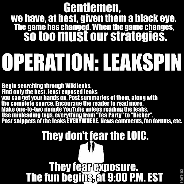 Official poster for Operation Leakspin.